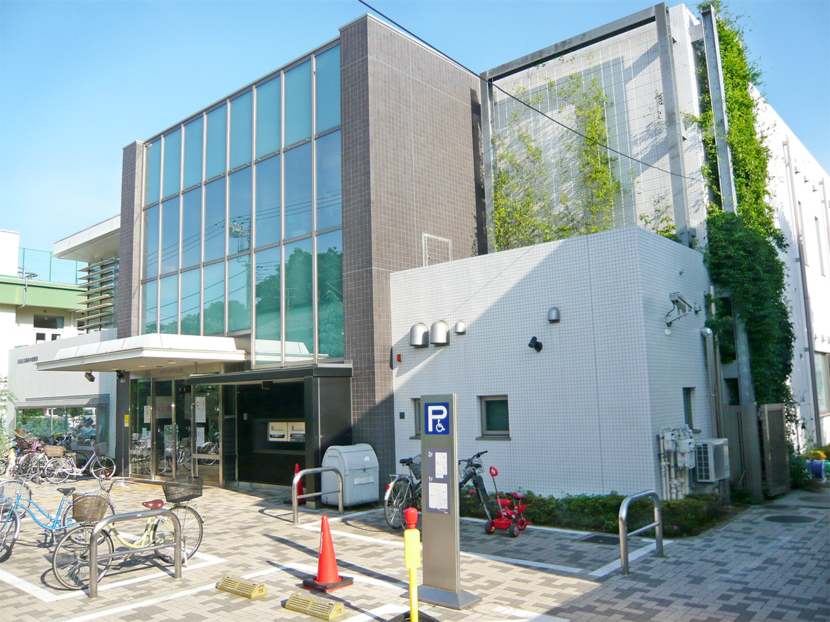 Nerima City Public Library Minami-tanaka Library